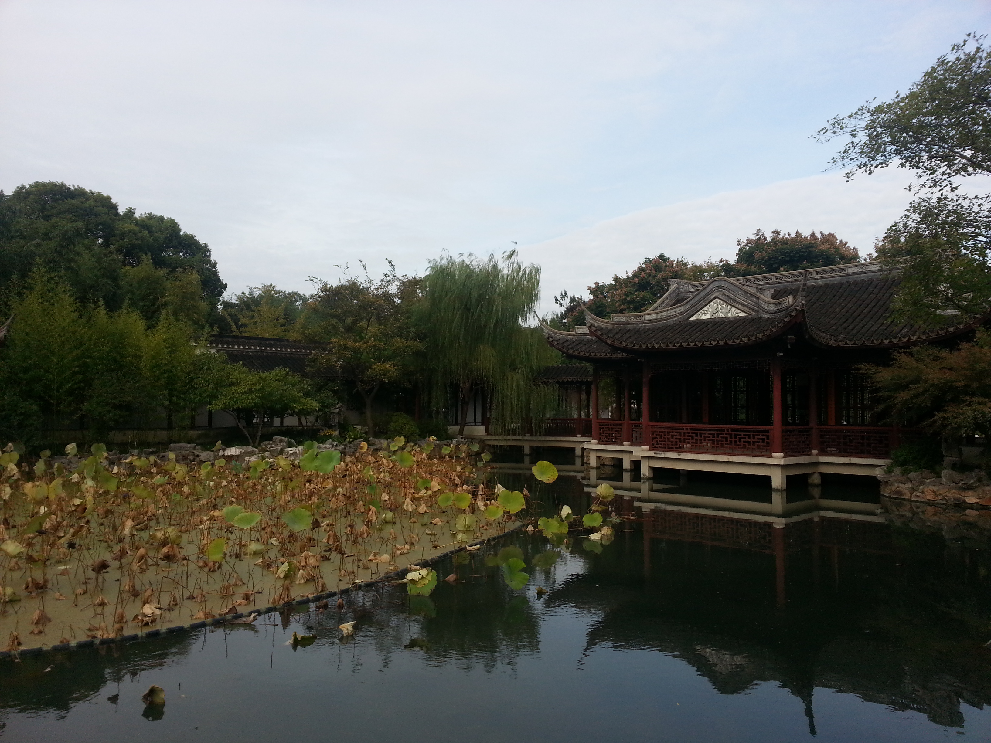 Guyi Garden in Nanxiang, Shanghai, Oct. 2015